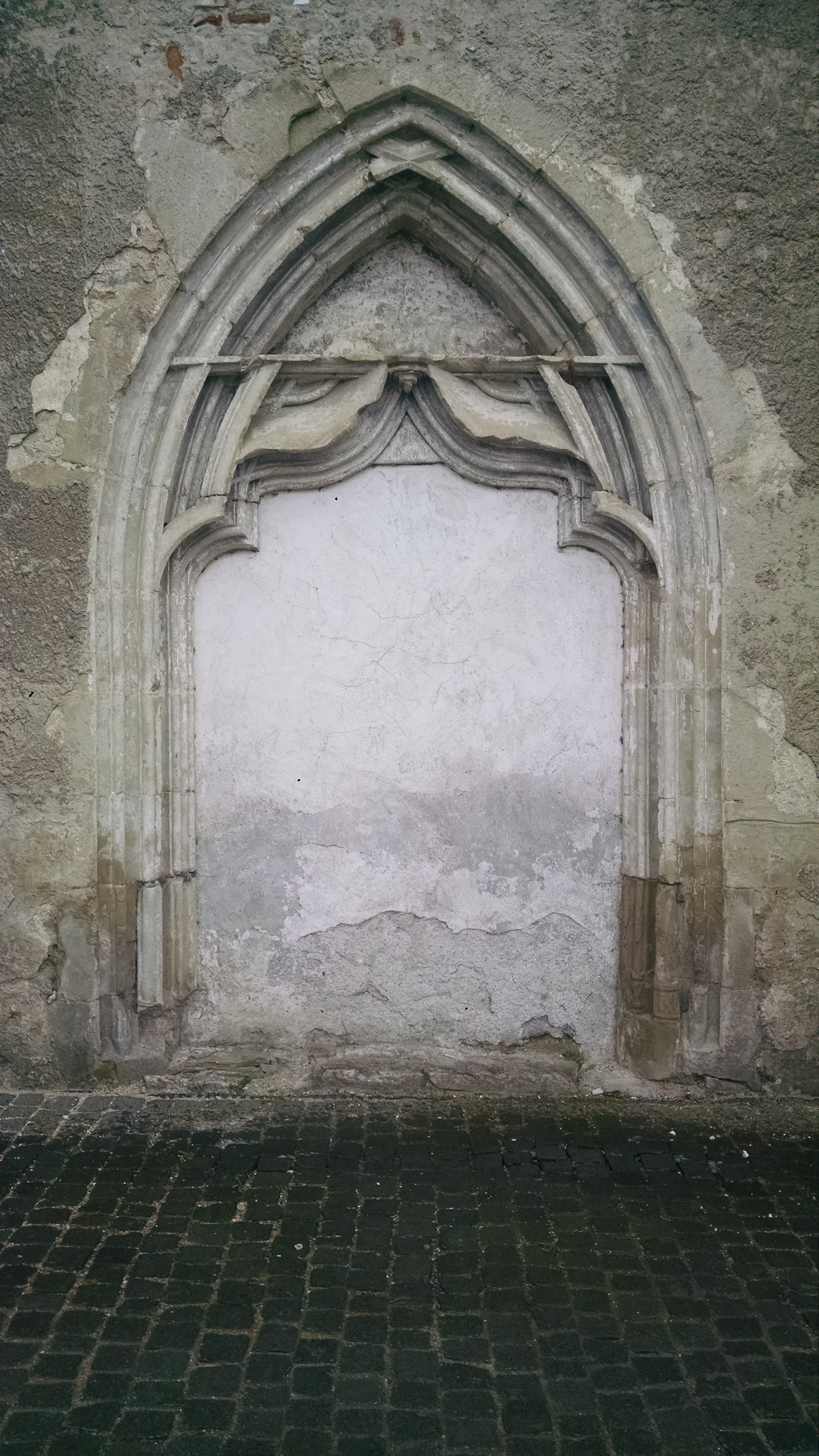 Objavený hlavný portál na severnej strane